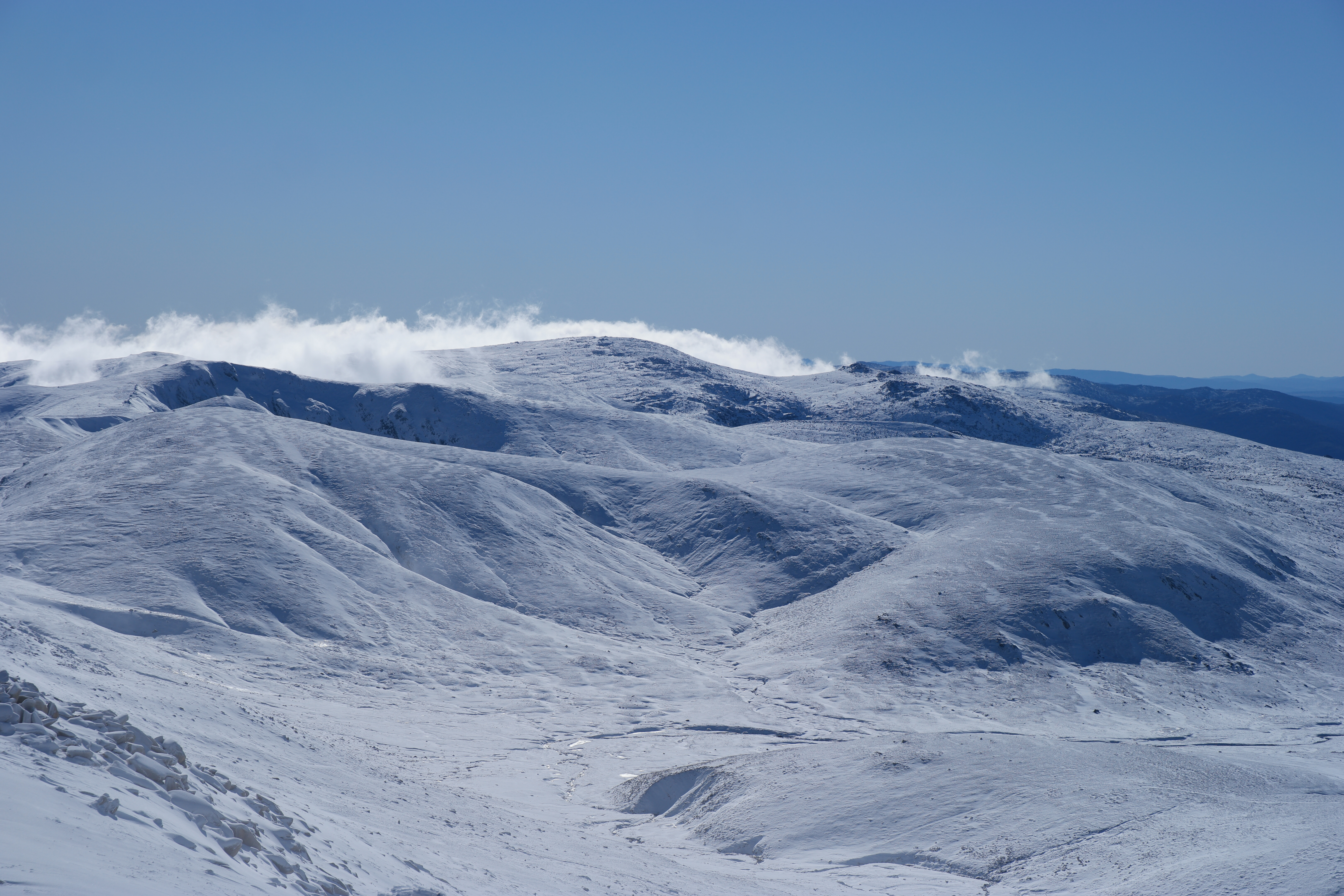 Morning views from the summit of Mount Kosciuszko, Kosciuszko National Park, New South Wales, Australia.